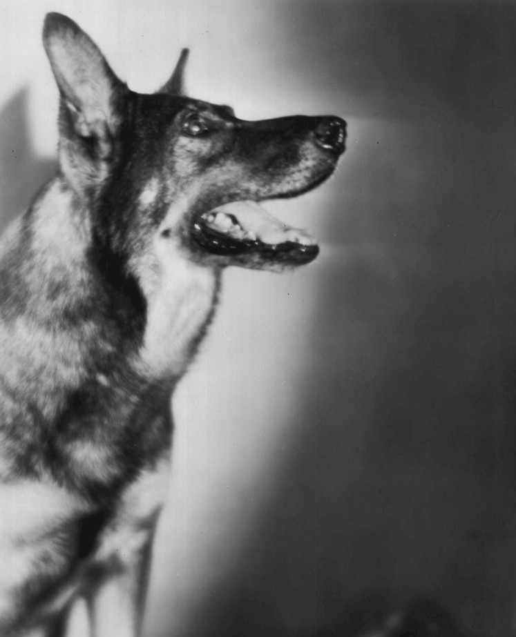 Photo of Rin Tin Tin from the 1929 film Frozen River. This is the original Rin Tin Tin pictured.